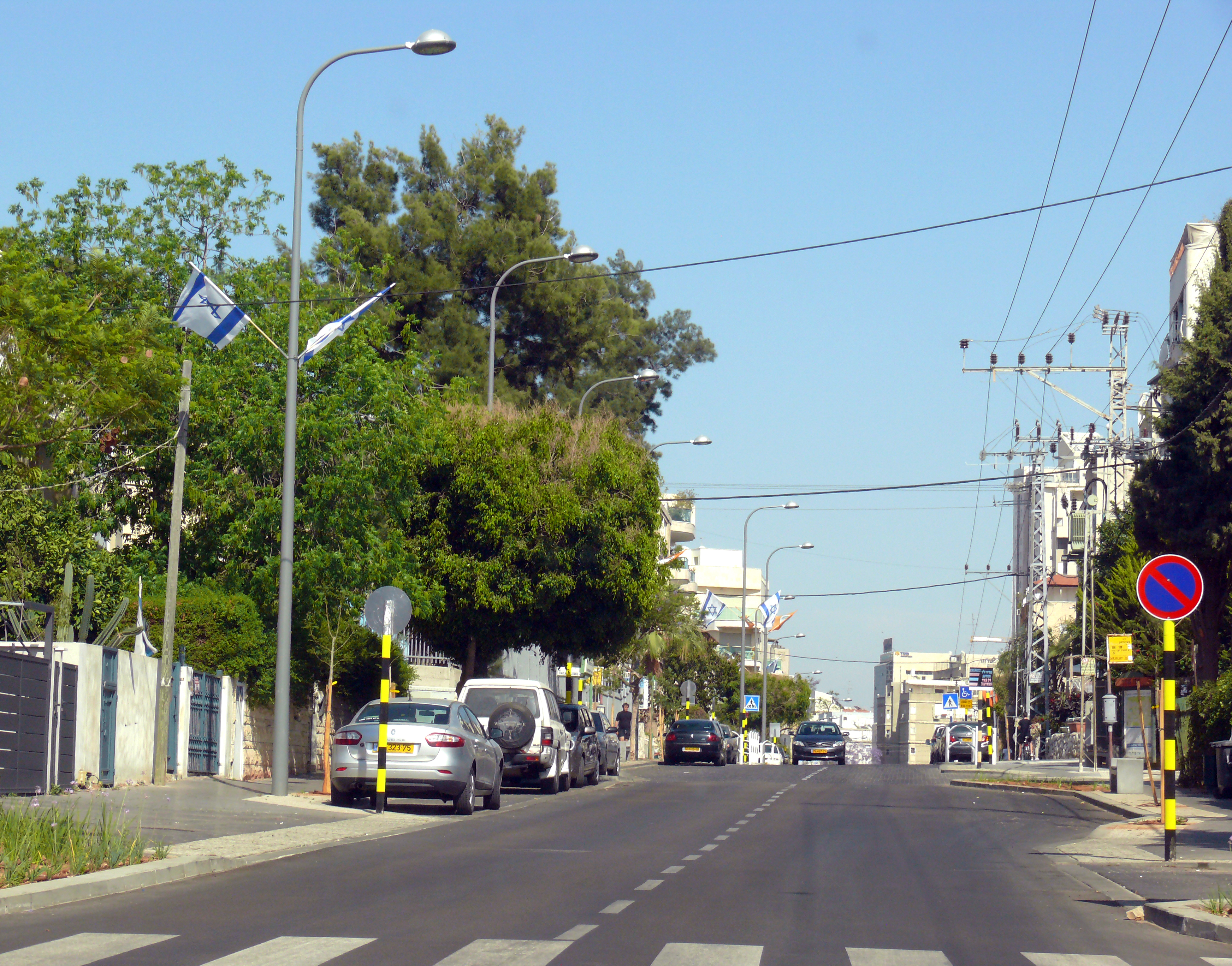 Katznelson street, Rishon LeZion, Israel